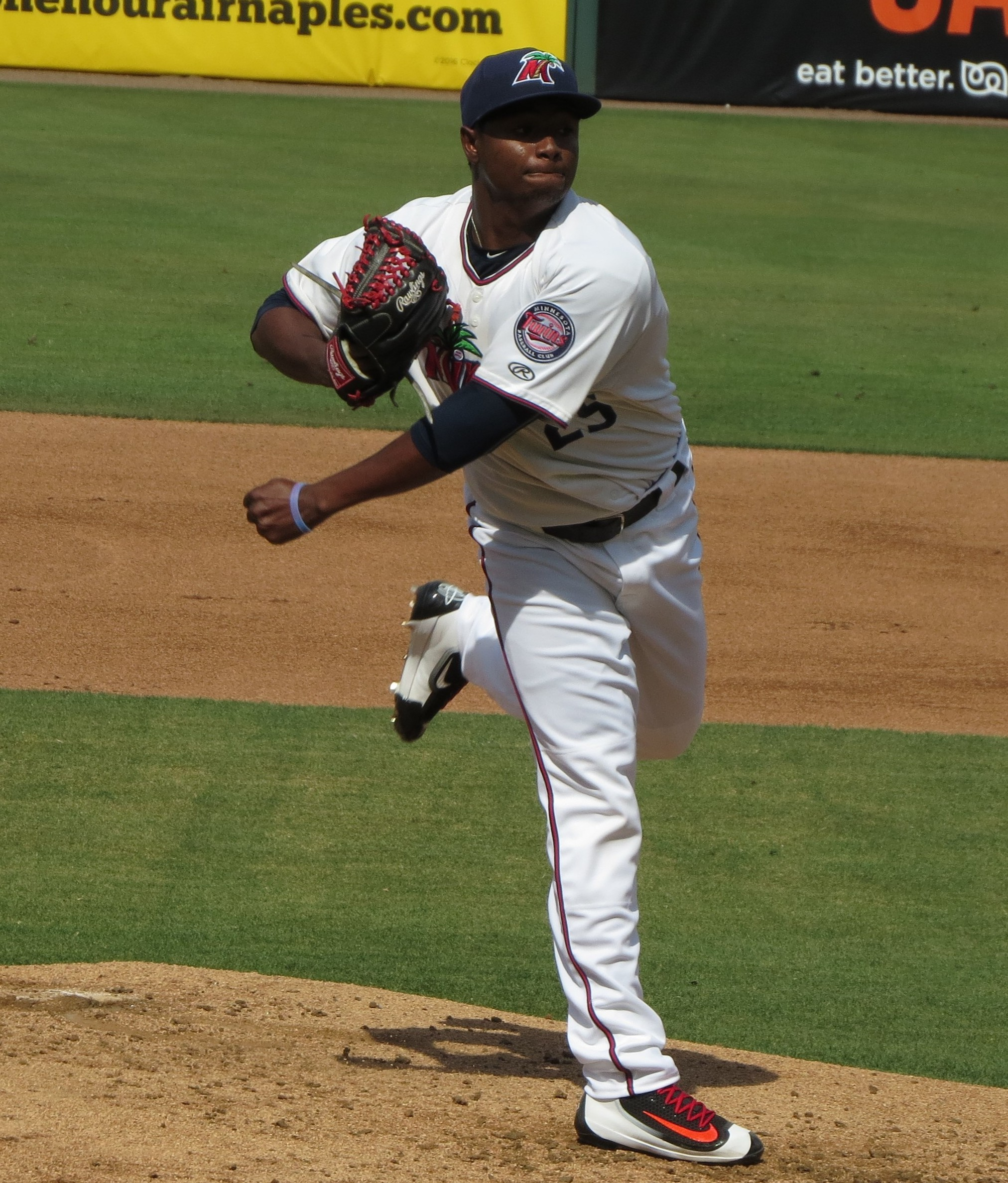 Rosario throws a pitch